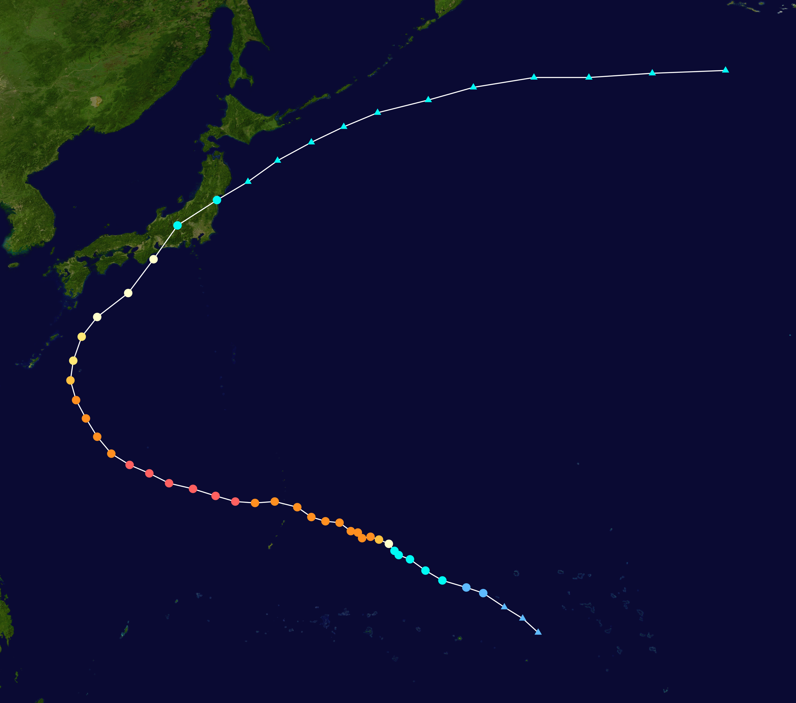 Track map of Typhoon Melor of the 2009 Pacific typhoon season. The points show the location of the storm at 6-hour intervals. The colour represents the storm's maximum sustained wind speeds as classified in the Saffir–Simpson scale (see below), and the shape of the data points represent the nature of the storm, according to the legend below. Saffir–Simpson scale Tropical depression≤38 mph≤62 km/h Category 3111–129 mph178–208 km/h Tropical storm39–73 mph63–118 km/h Category 4130–156 mph209–251 km/h Category 174–95 mph119–153 km/h Category 5≥157 mph≥252 km/h Category 296–110 mph154–177 km/h Unknown Storm type Tropical cyclone Subtropical cyclone Extratropical cyclone / Remnant low / Tropical disturbance / Monsoon depression